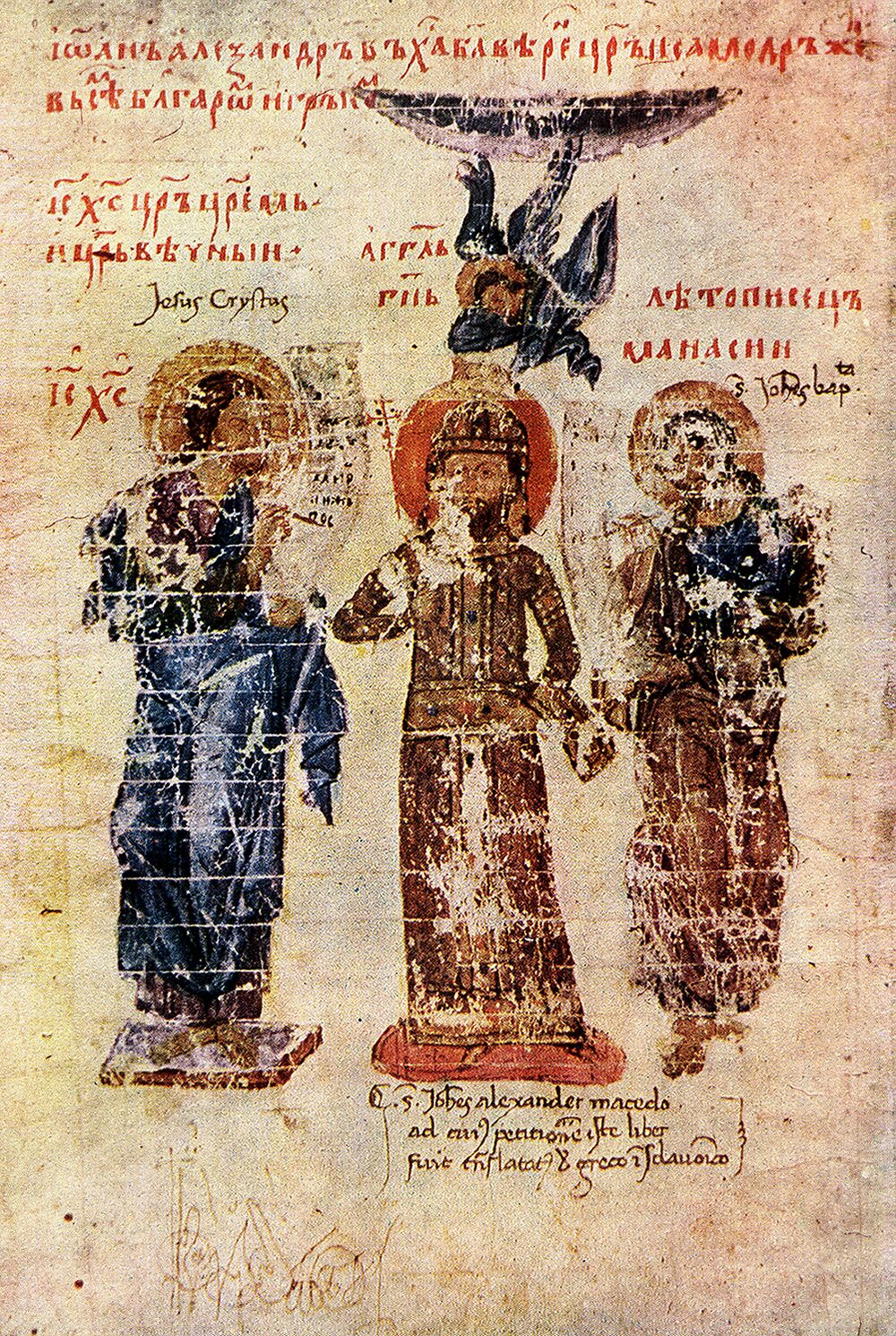 Konstantinos Manasses, Iwan Alexandar and Jesus Christ